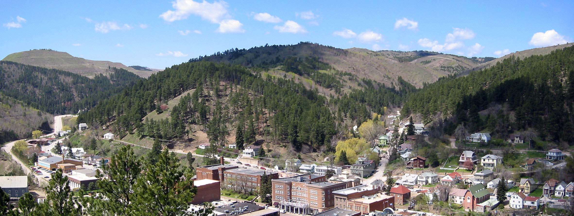 Deadwood today (view from Mount Moriah). (Photo taken and uploaded by the author.) Photo sharpened, cropped, and color, levels, and contrast corrected by Schcambo.